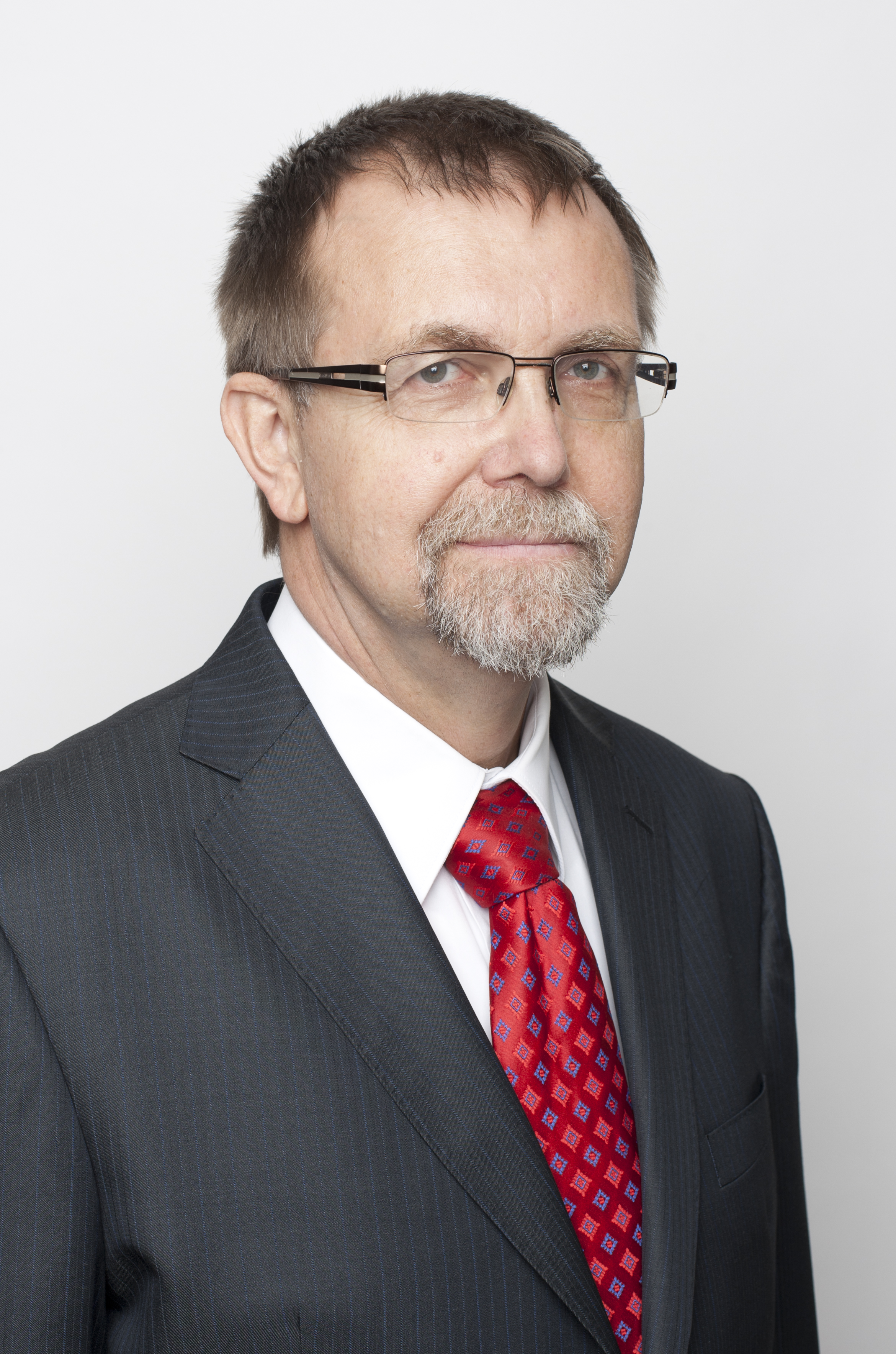 Mgr. Radko Martínek, from 2012 member of the Senate of the Parliament of the Czech Republic